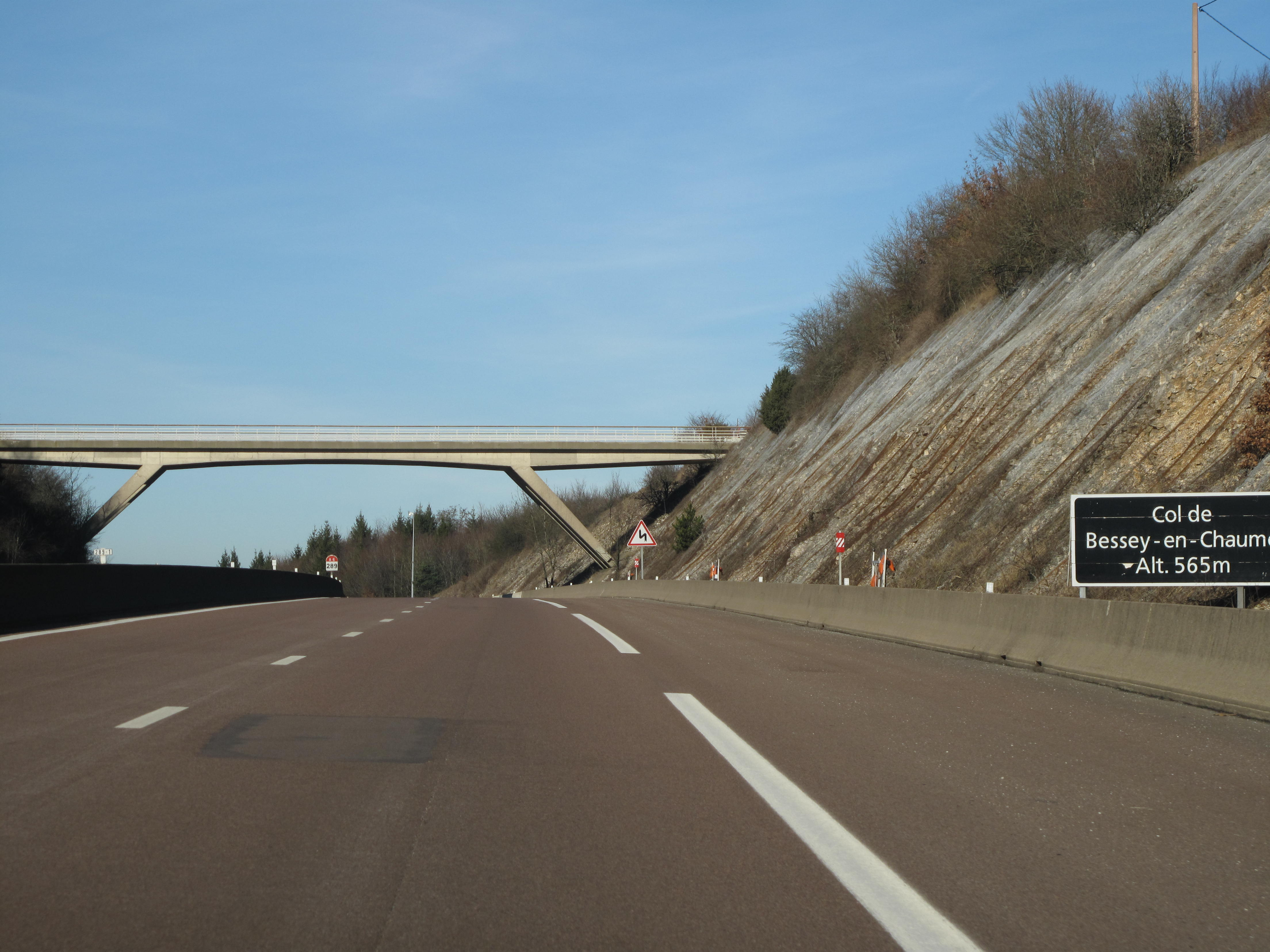 Pass of Bessey-en-Chaume on the French highway autoroute A6 between the valley of the river Saône and the plateau of the Morvan. Driving to the north